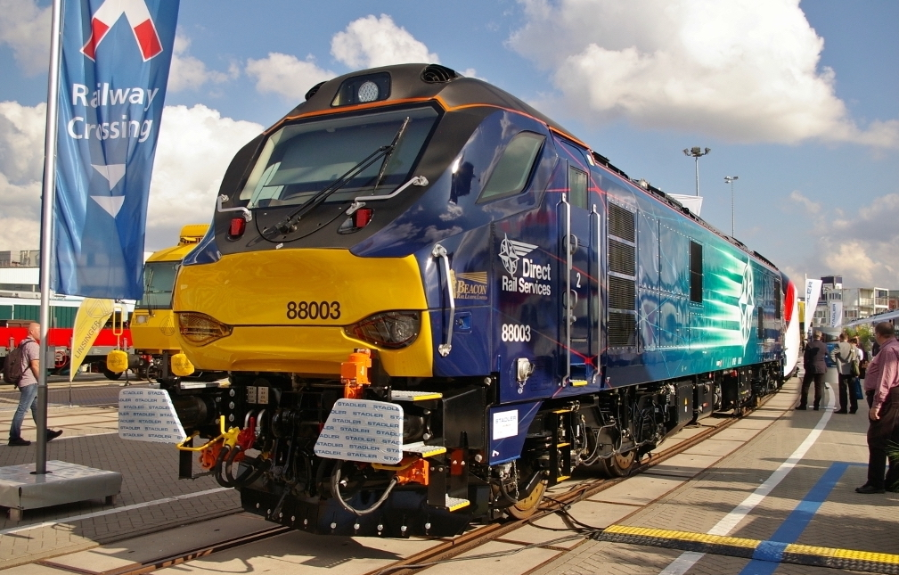 InnoTrans 2016 in Berlin: Bei der Direct Rail Services 88003 handelt es sich um eine Euro Dual-Lokomotive für den Personen- und Güterverkehr bis 160 km/h in Großbritannien. Die Lokomotive wurde von Stadler Spanien gebaut und im Testcenter Velim geprüft. Es ist die erste Lok die sowohl mit 25 kV und mit Dieselmotor angetrieben werden kann. Die Class 88 erfüllt alle europäischen Standards. Aufgebaut auf einem Stahl-Monocoque, einem Bremsystem das direkt auf die Radsätze wirkt, zwei ergonomisch aufgebauten Führerständen mit Aircondition wiegt die Lok max 126 t. Aus Südafrika liegt eine Order über 50 der Euro Dual-Lokomotiven vor, für UK sollen 10 Stück gebaut werden.